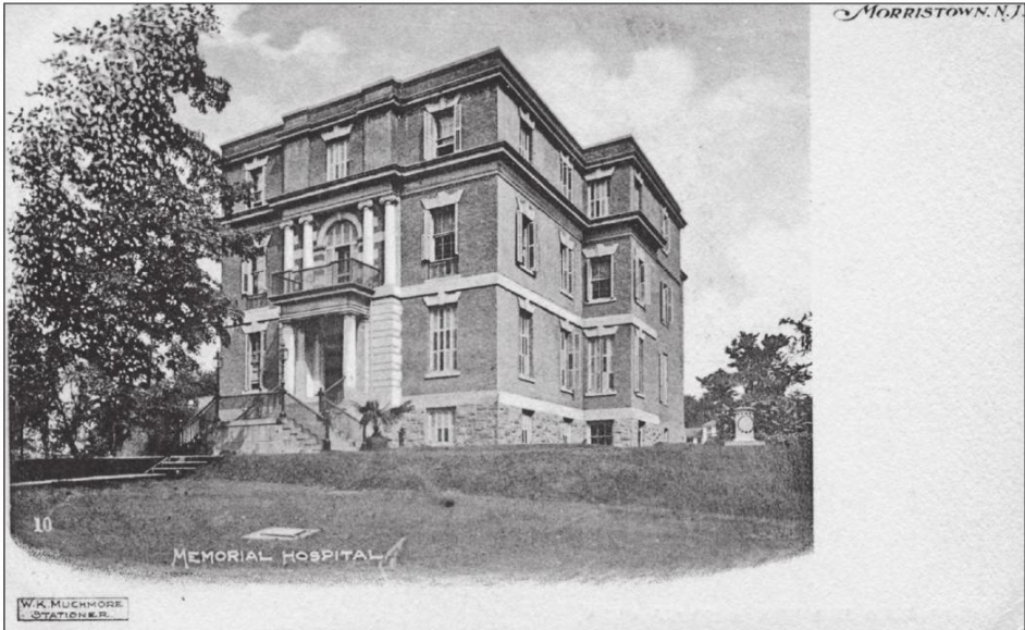 Morristown Memorial Hospital around the turn of the 20th century.